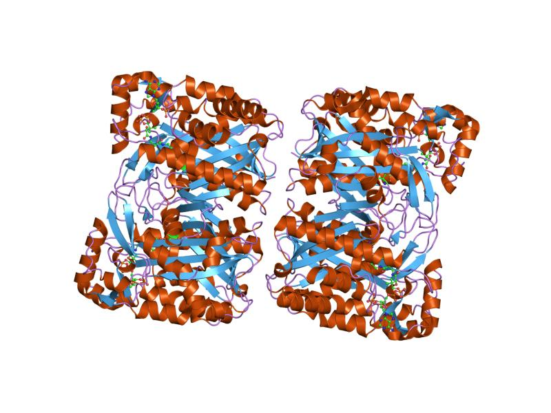 Cartoon representation of the molecular structure of protein registered with 1txt code.